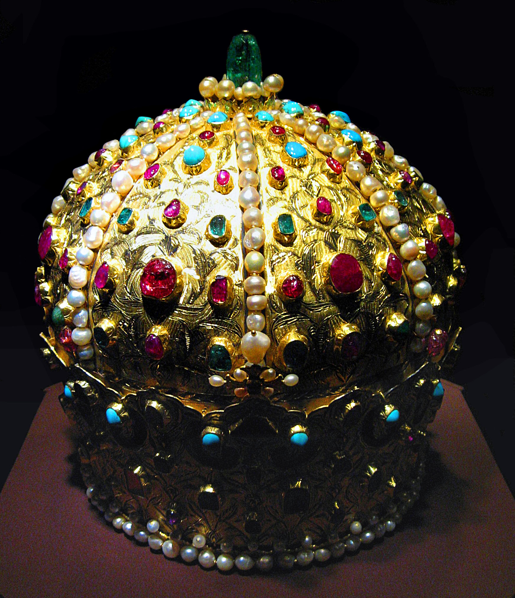 The Crown of István Bocskay Persian c. 1600 Gold, rubies, spinels, emeralds, turquoises, pearls, silk H 23.2 cm, Diam. 18.8 cm-22 cm SK Inv. No. XIV 25